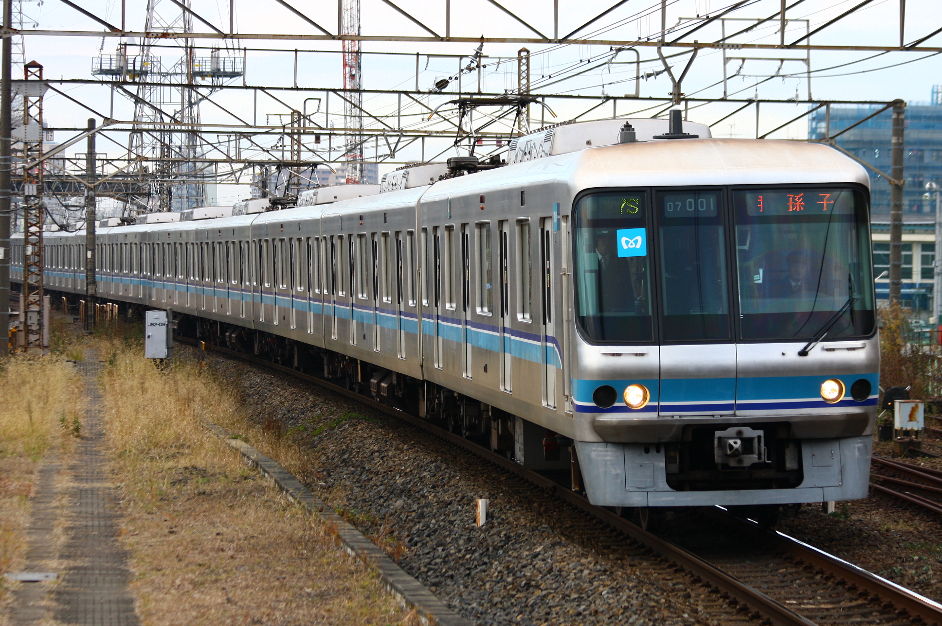 A Tokyo Metro 07 series EMU on a Chiyoda Line service